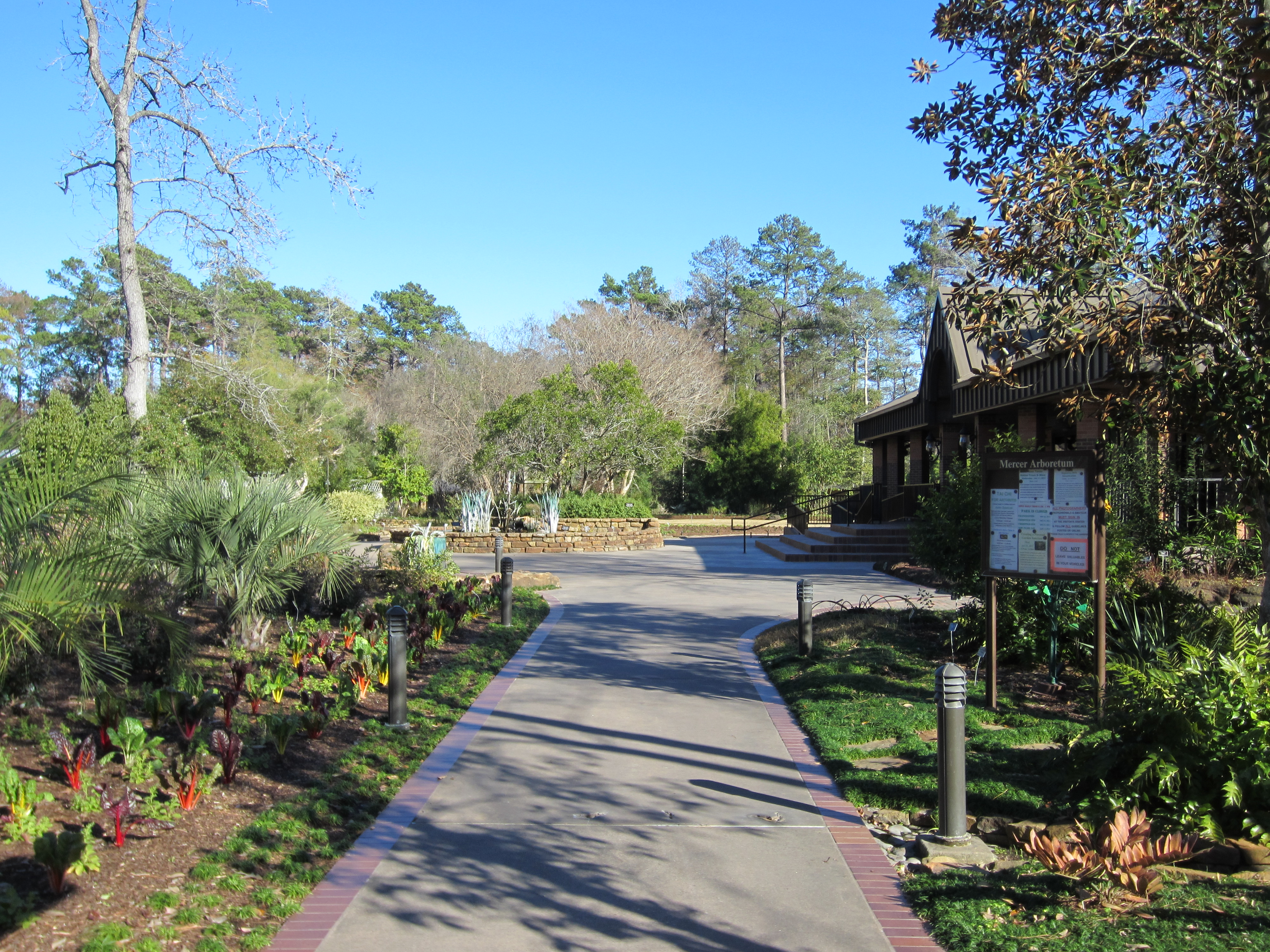 Entrance and main building at Mercer Arboretum and Botanic Gardens in Houston, Texas in January 2012